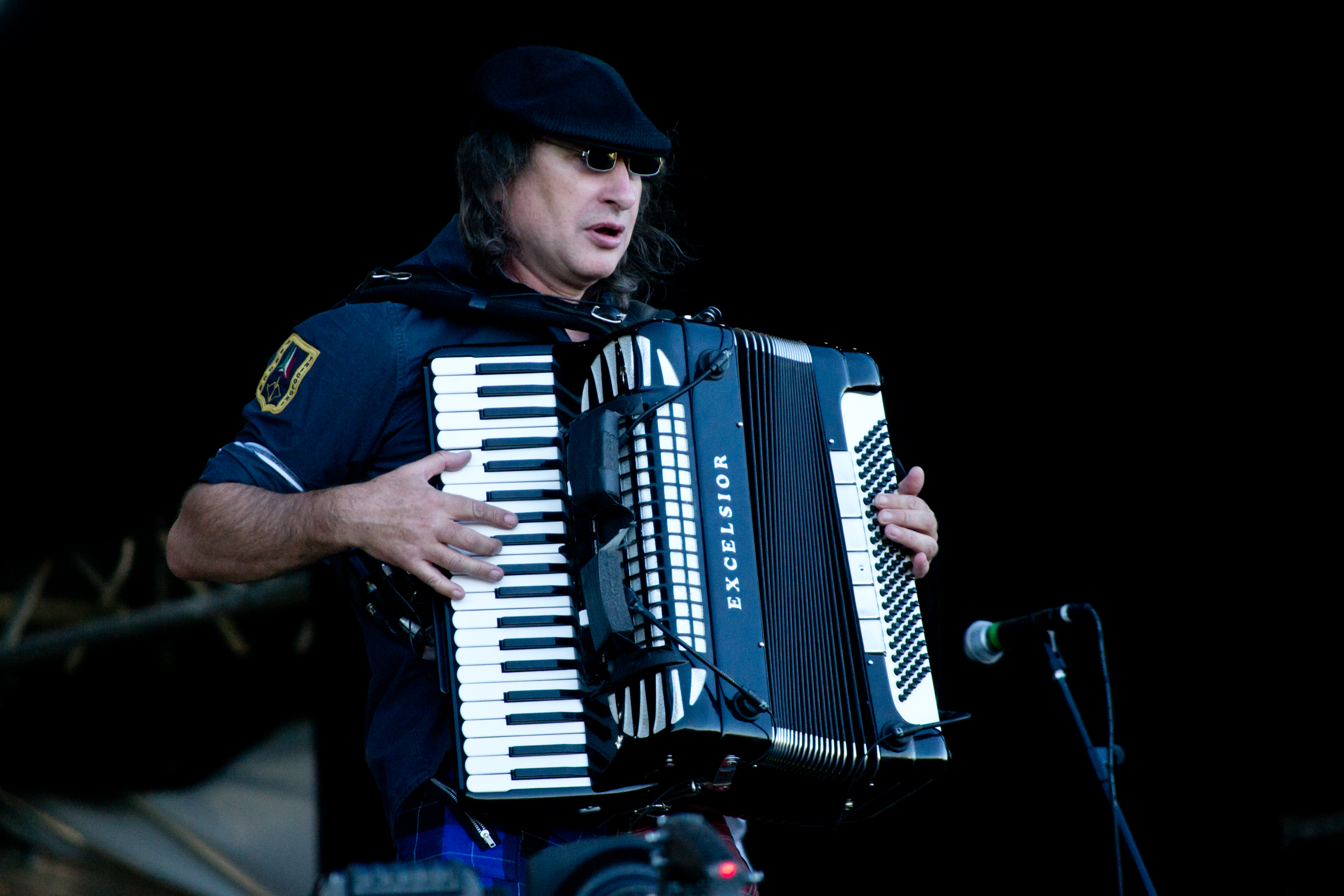 Gogol Bordello in Rock in Rio Madrid 2012.